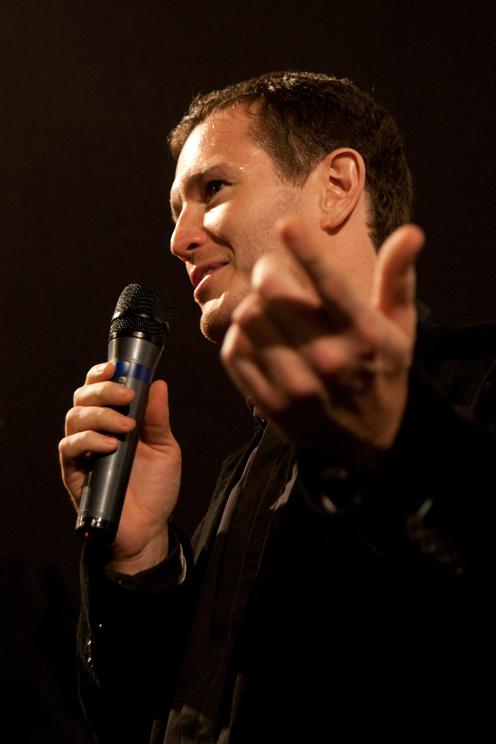 Nick Moran introduces "The Kid" at the British film festival. Dinard, France.